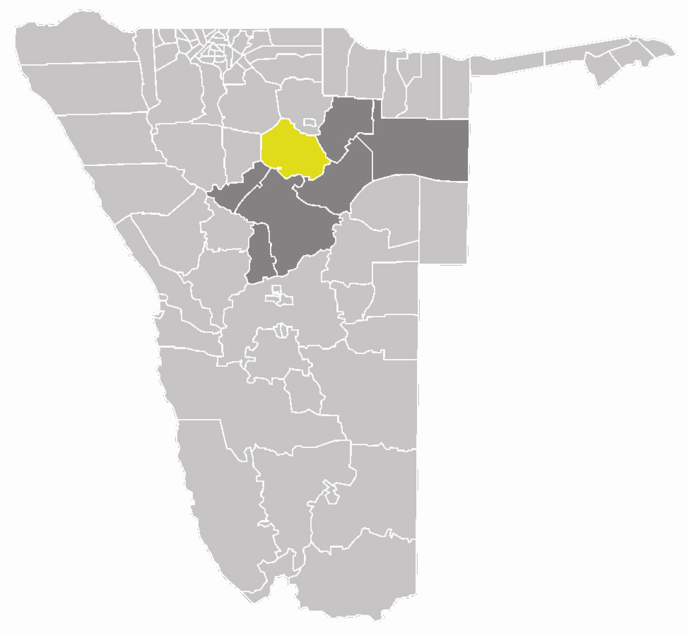 map of the Otavi constituency within the Otjozondjupa region, Namibia